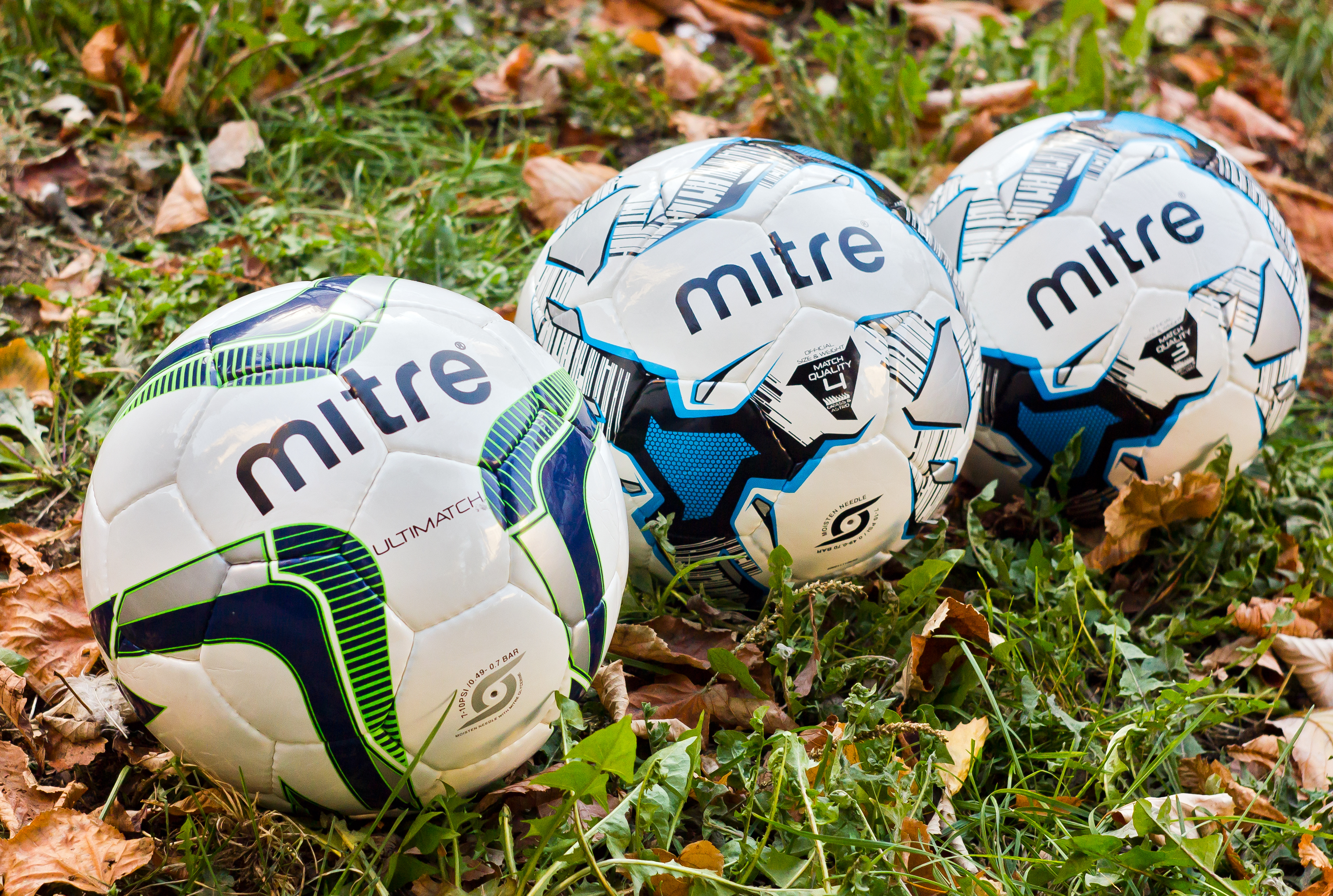 Mitre Ultimatch Fooballs